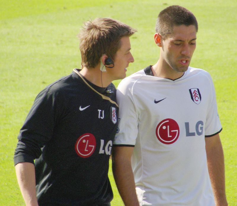 Clint Dempsey of Fulham FC